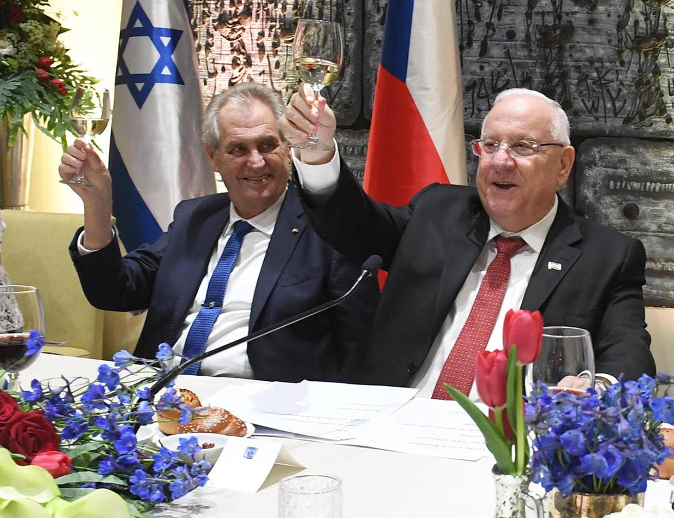 The President of Israel, Reuven Rivlin, and his wife Nechama in a state dinner in honor of President of the Czech Republic, Miloš Zeman and his wife. Monday, November 26, 2018. Photo credit: Mark Neiman / GPO.